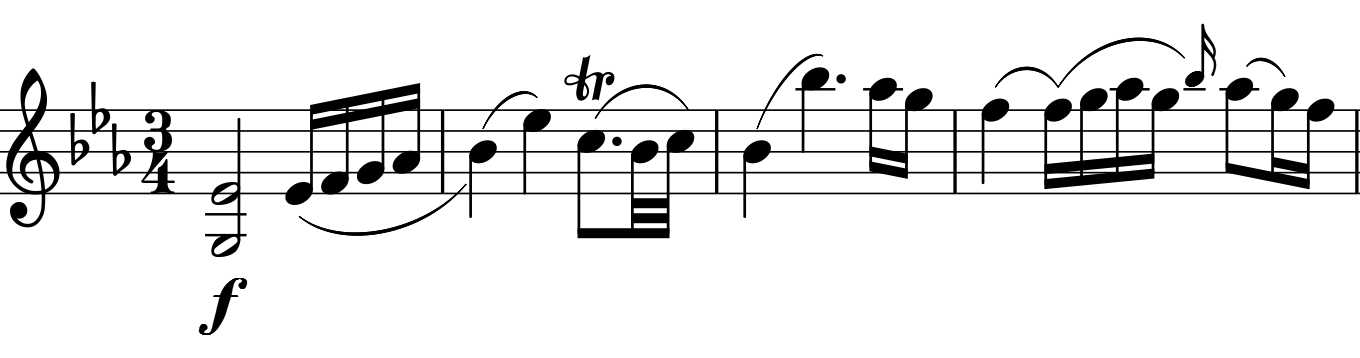 Joseph Haydn, Symphony No. 36, first movement, bar 1-4, first violin